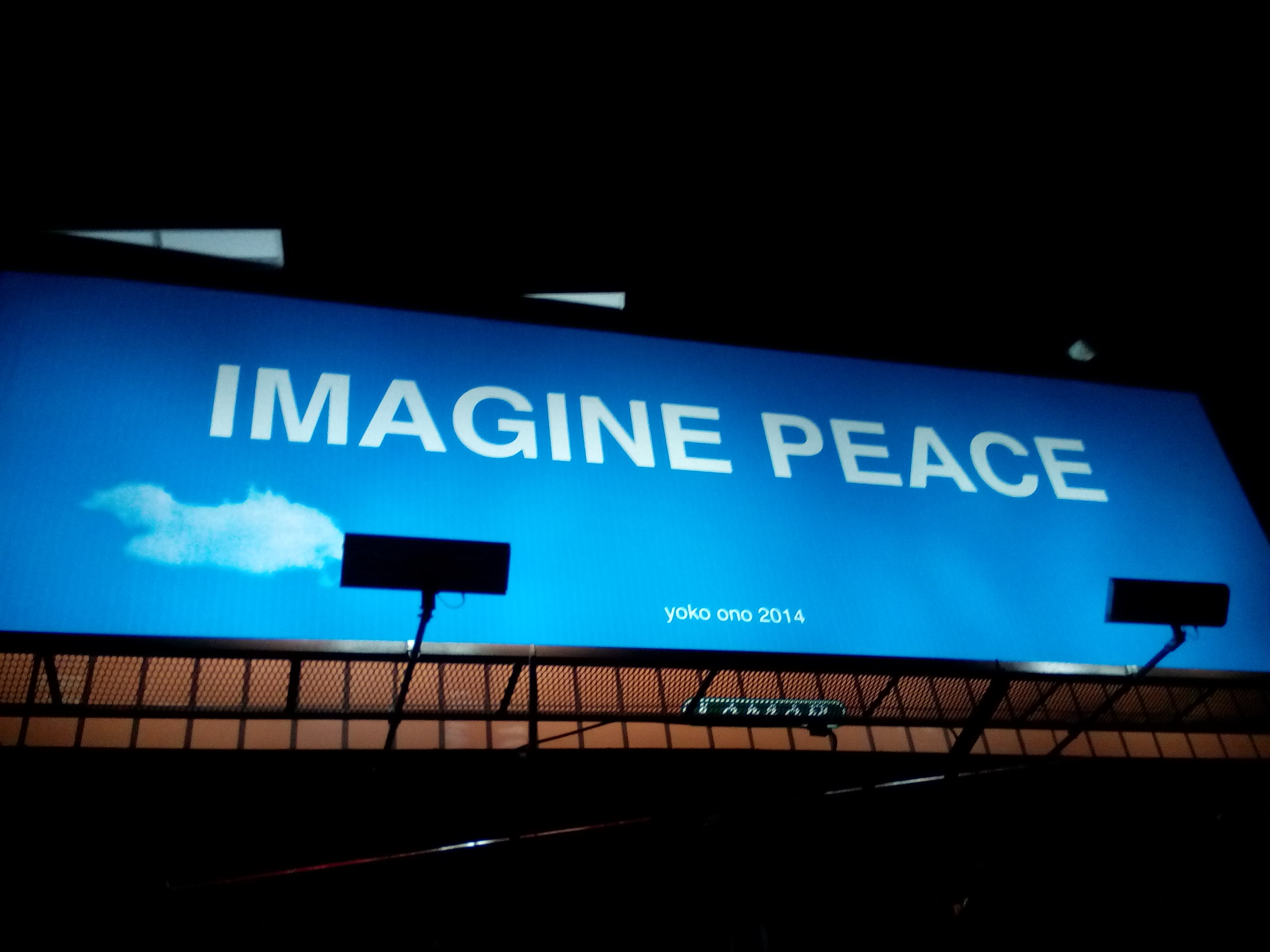 A photo I took of Yoko Ono's 2014 billboard promoting peace and her exhibit at the Bob Rauschenberg Gallery at FSW in Fort Myers, FL.